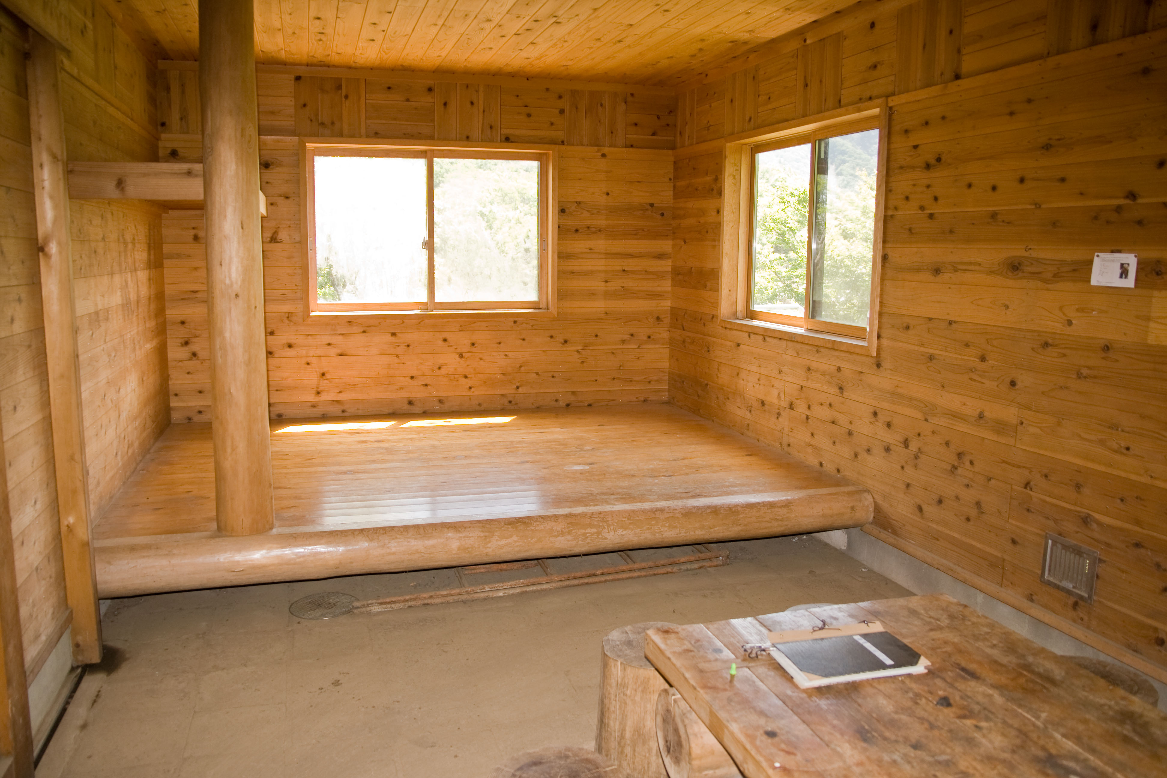 Inukoeji hinangoya ("Inukoeji shelter hut") in the Tanzawa Mountains, Kanagawa Prefecture, Japan